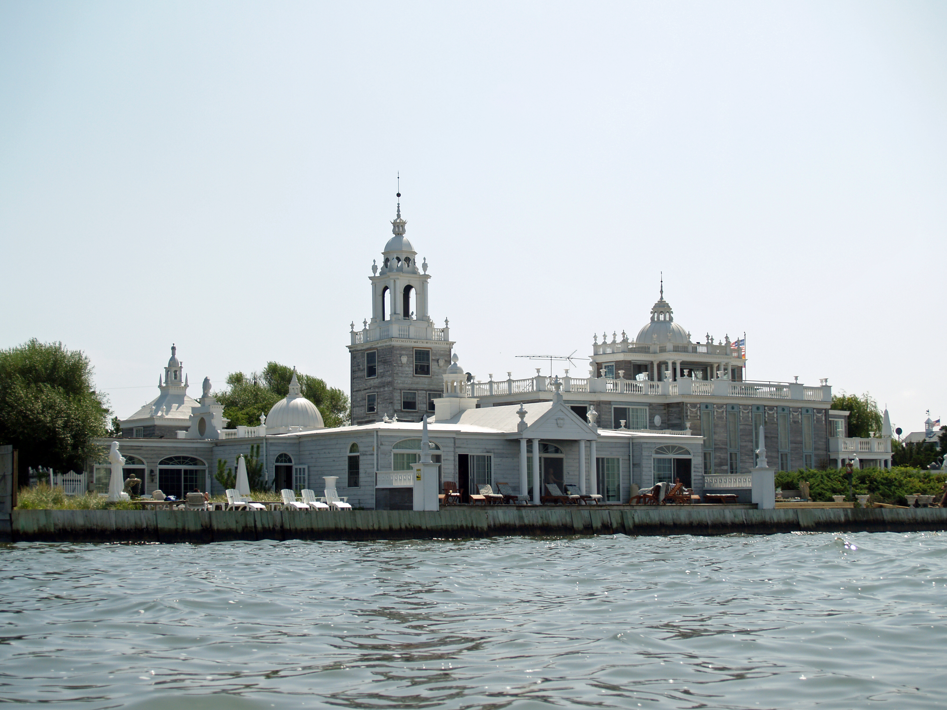 Belvedere Guest House on Fire Island Cherry Grove, Long Island, New York.